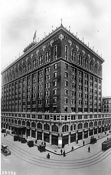 Copy of a retouched photograph. Subjects (LCTGM): Hotels--Washington (State)--Seattle; Street railroads--Washington (State)--Spokane; Automobiles--Washington (State)--Spokane Subjects (LCSH): Davenport Hotel (Spokane, Wash.)